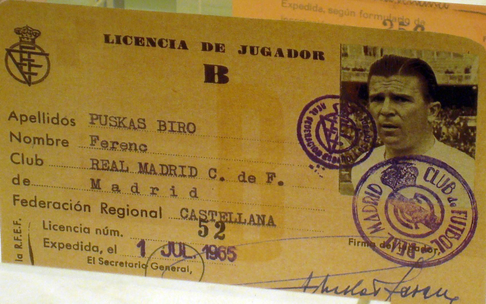 Puskas's Real Madrid player licence